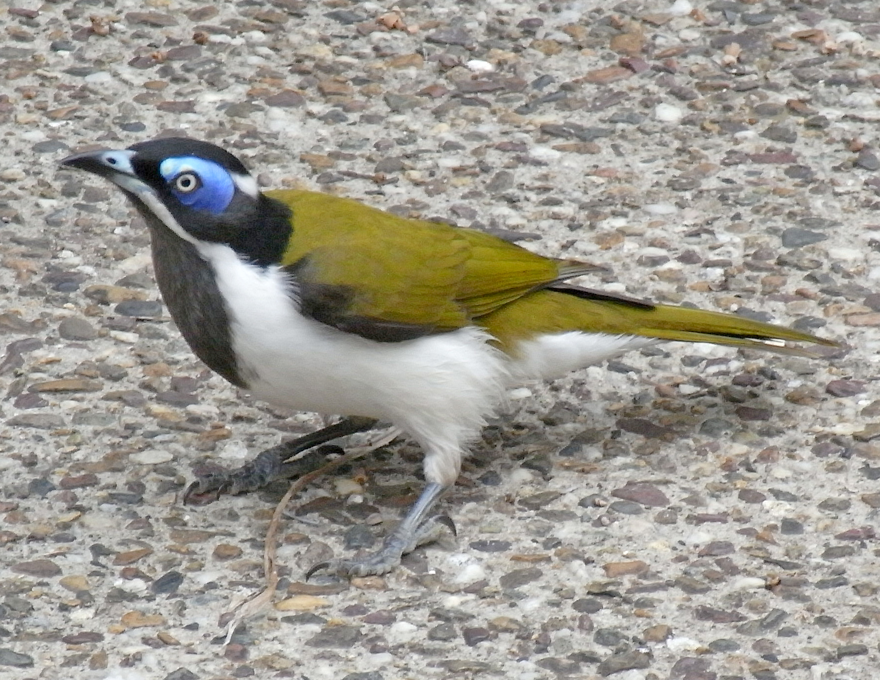 Blue-faced honeyeater (Entomyzon cyanotis) in a backyard in Canungra, Queensland, Australia.